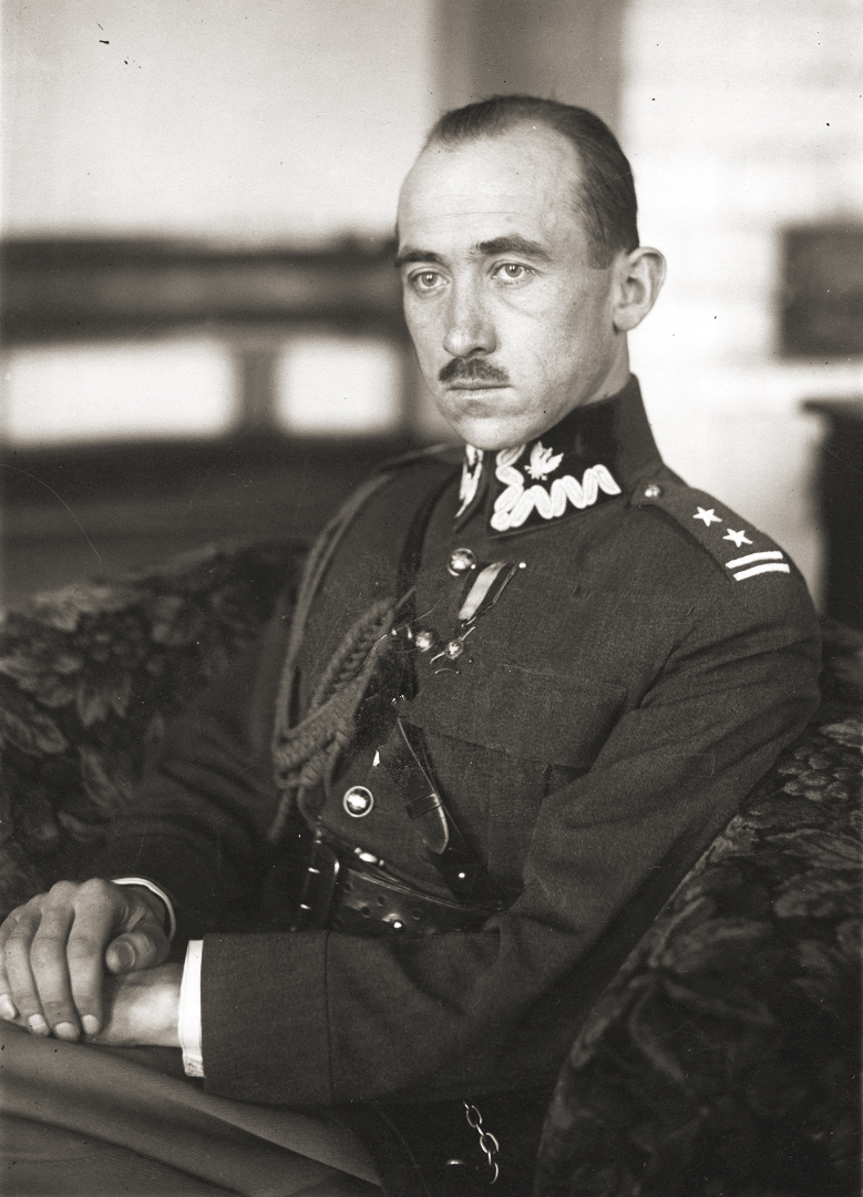 Tadeusz Schaetzel